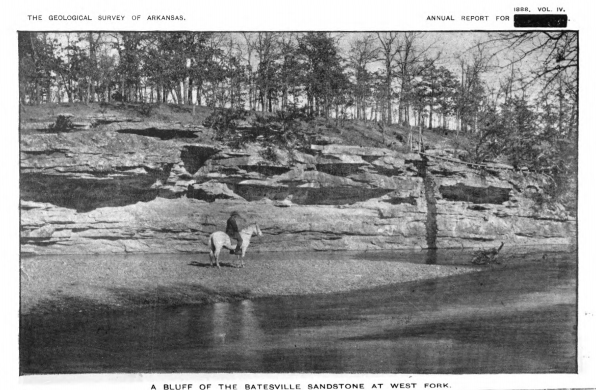 Photograph of the Wedington Sandstone Member on the bank of the White River at the town of West Fork, Arkansas (then mistaken to be Batesville Sandstone by Frederick Willard Simonds in 1891).